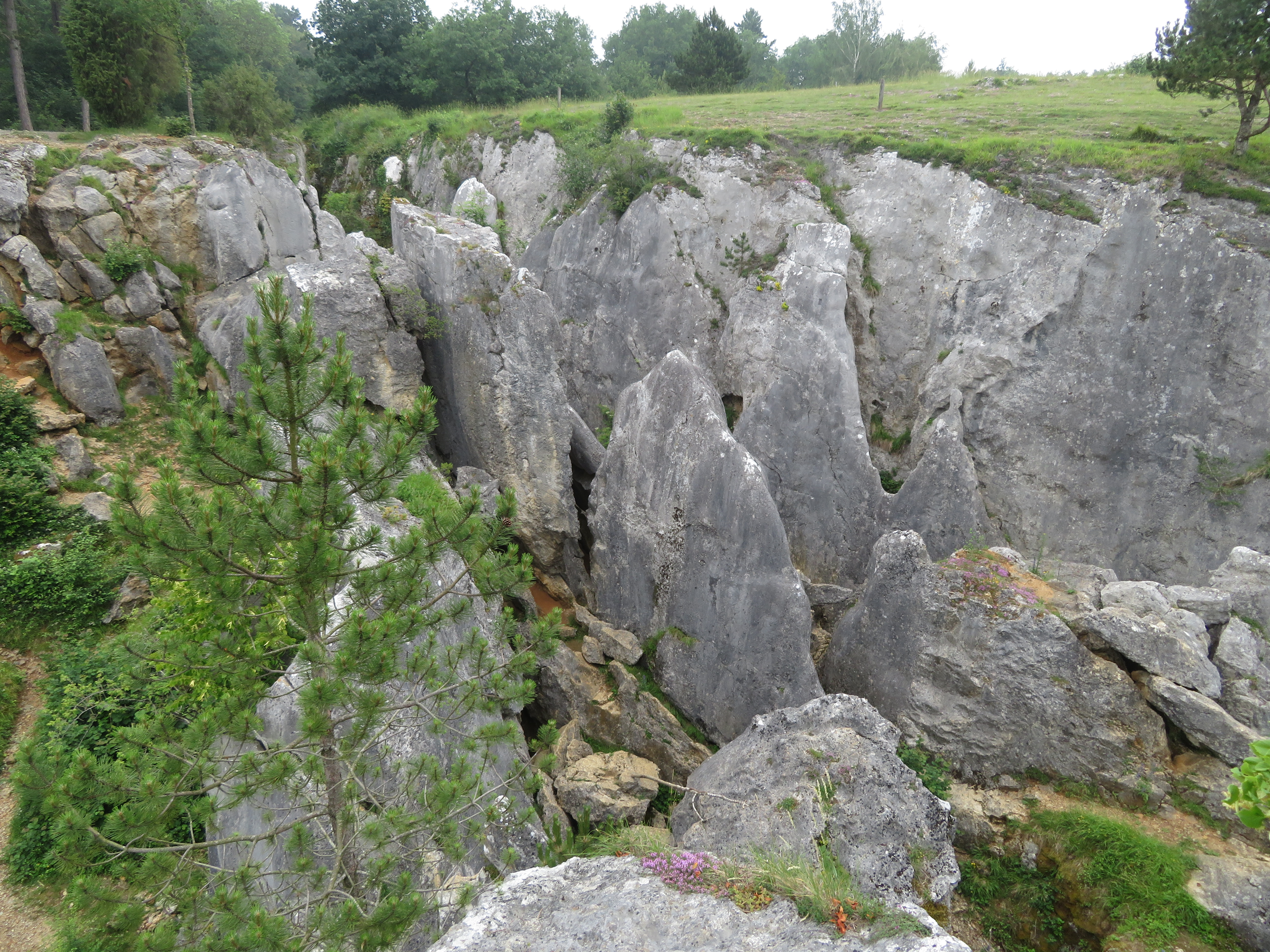 Fondry des Chiens